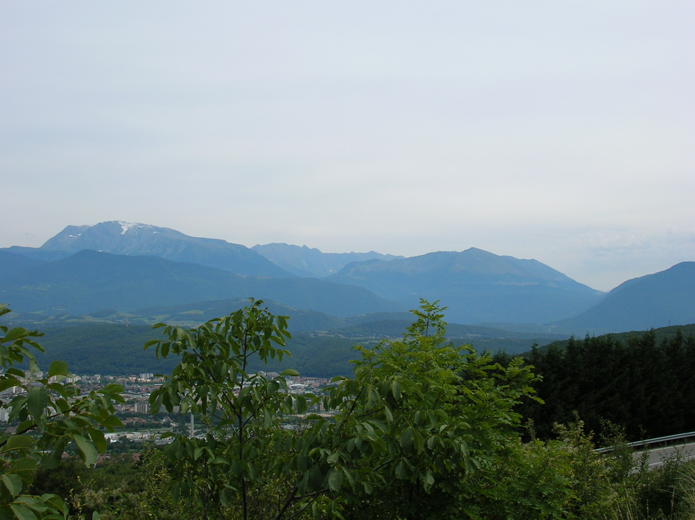 my own photograph